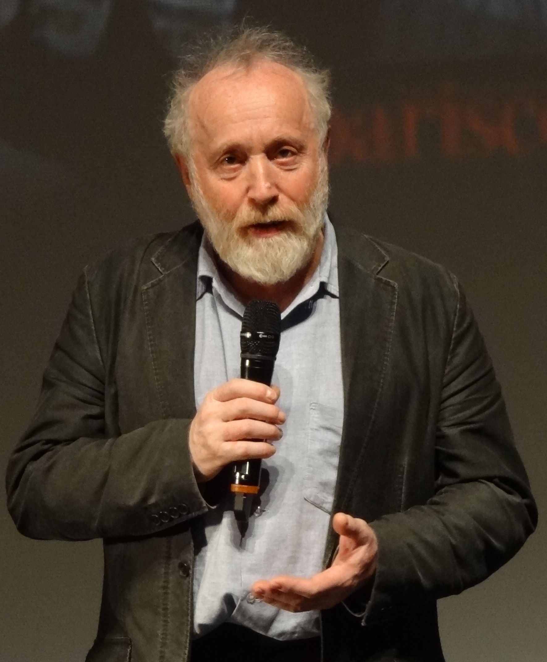 Yuri Norstein at the Forum des Images in Paris March 23, 2012, for a tribute to Kihachiro Kawamoto.